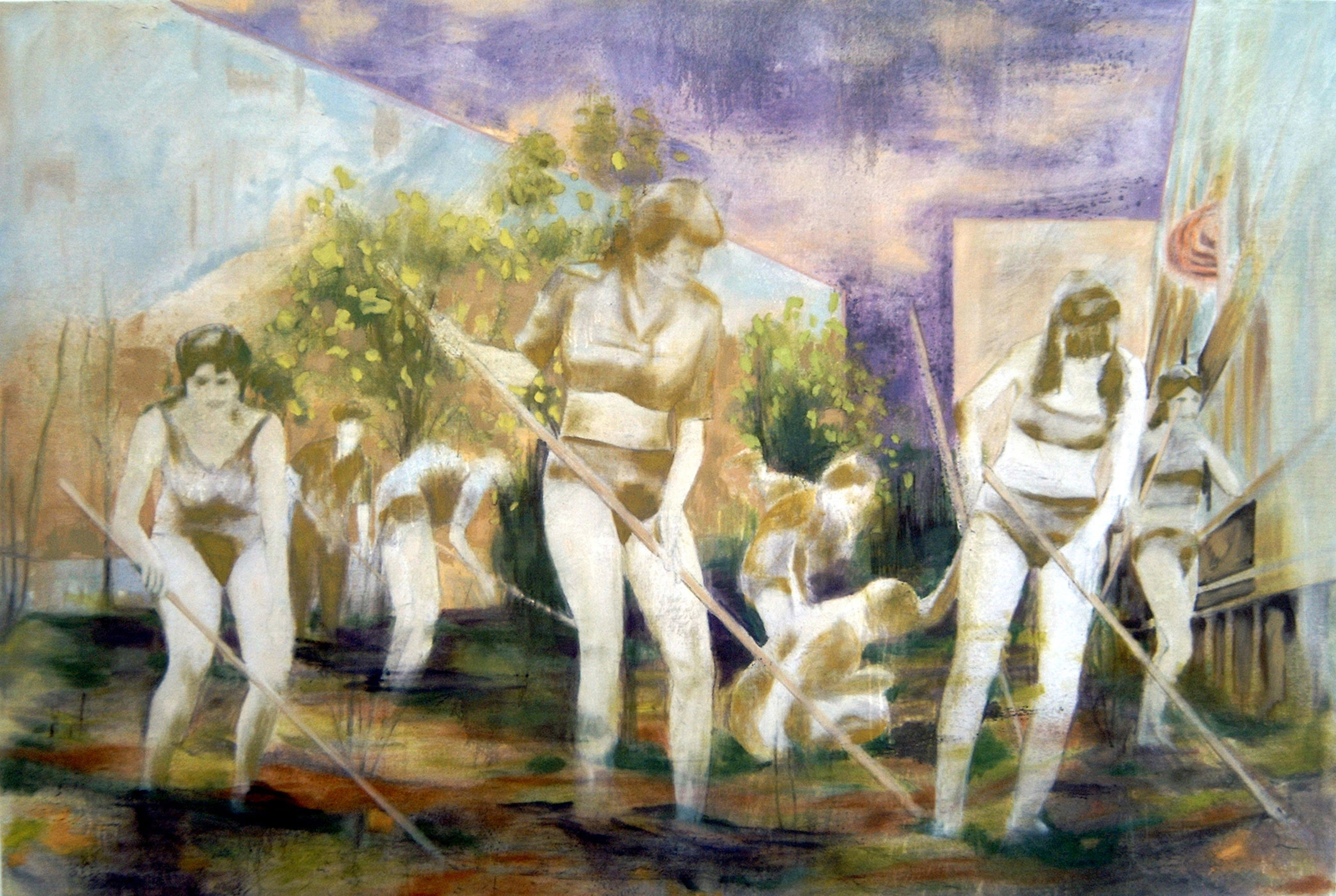 subbotnik, oil on canvas, 175-x-260 cm, 2004